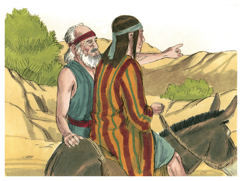 Biblical illustration of Book of Genesis Chapter 37